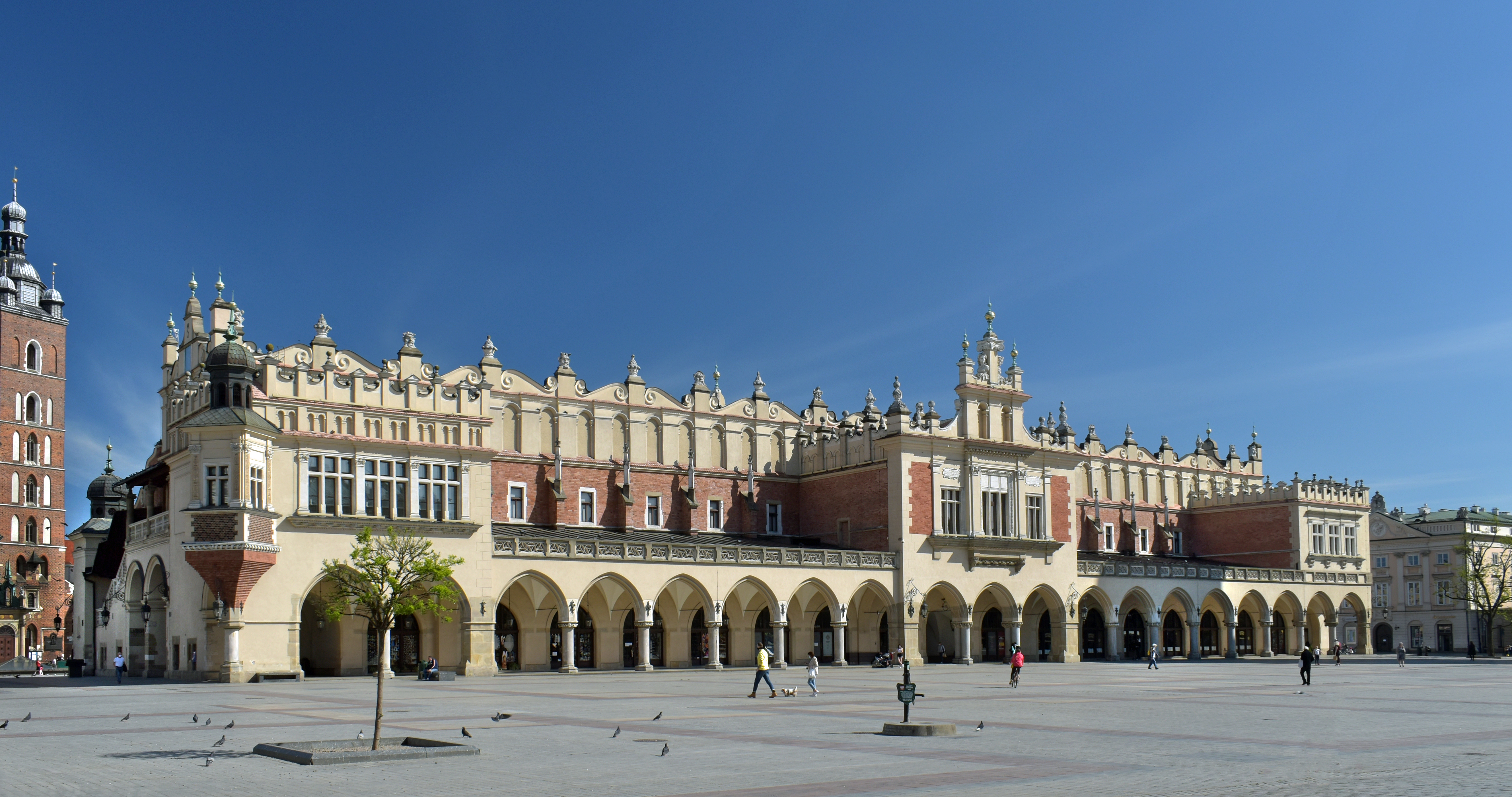 Kraków Cloth Hall, view from W, 3 Main Market square, Old Town, Krakow, Poland